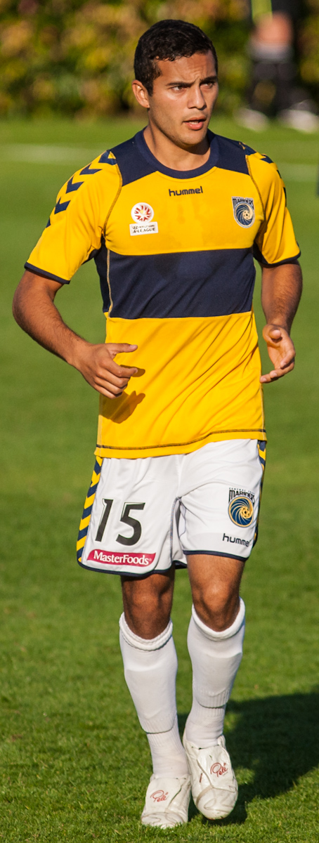 Brad McDonald playing in a pre-season game between the Central Coast Mariners and Melbourne Victory on 16/09/2012.